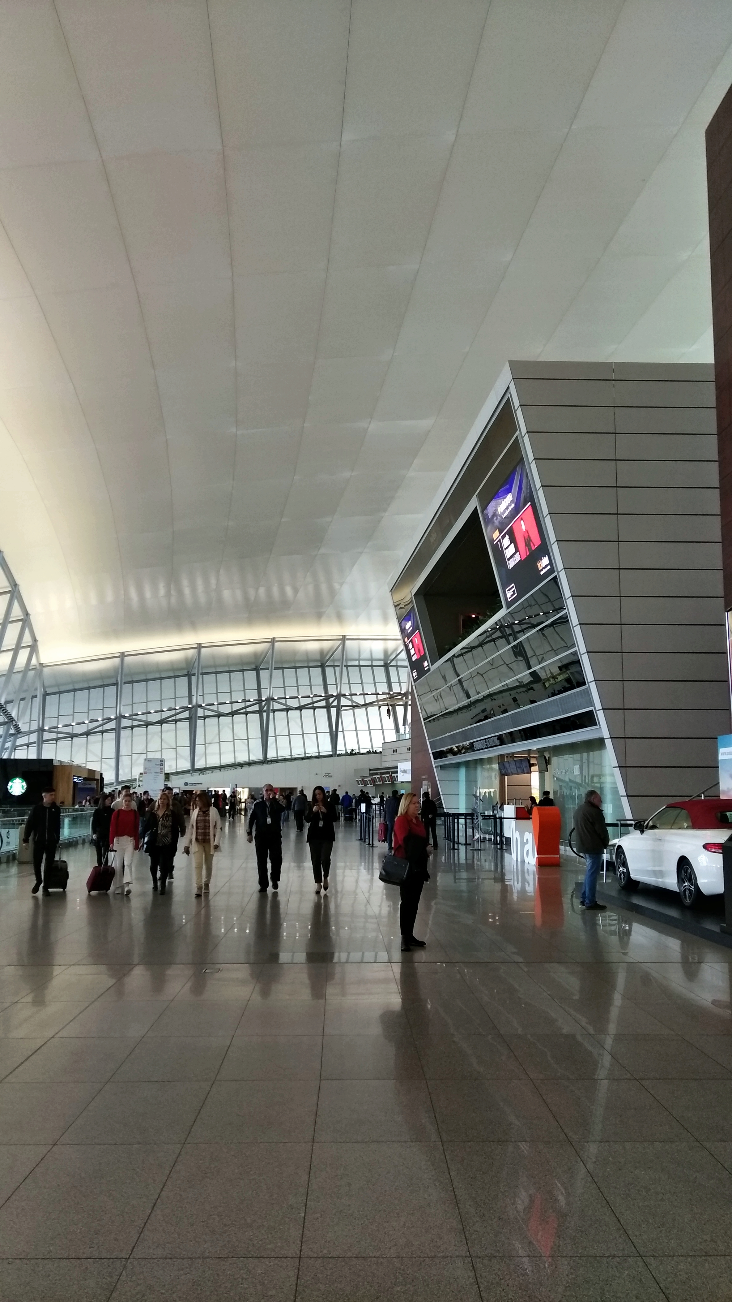 Carrasco airport, Montevideo city, departure hall